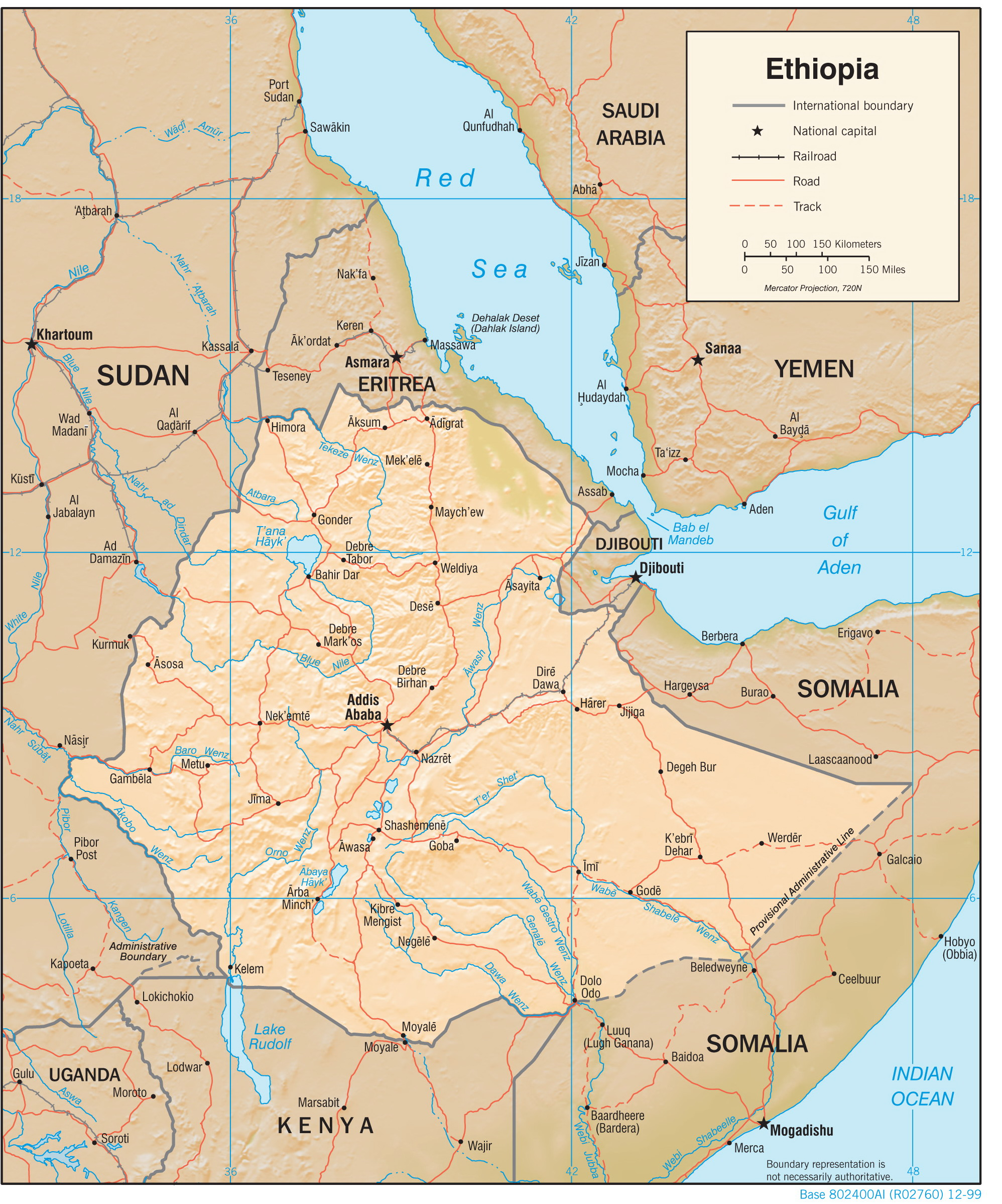 Topographic map of Ethiopia (shaded relief), 2000.